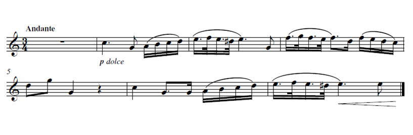 The first 6 bars of the andante of Valentin Zubiaurre's Audition Piece for Trumpet